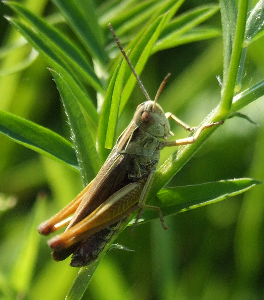 Common Green Grasshopper, male,(Omocestus viridulus, m., Linné, 1758), stridulating, NSG Kirchwerder Wiesen, Hamburg, Germany